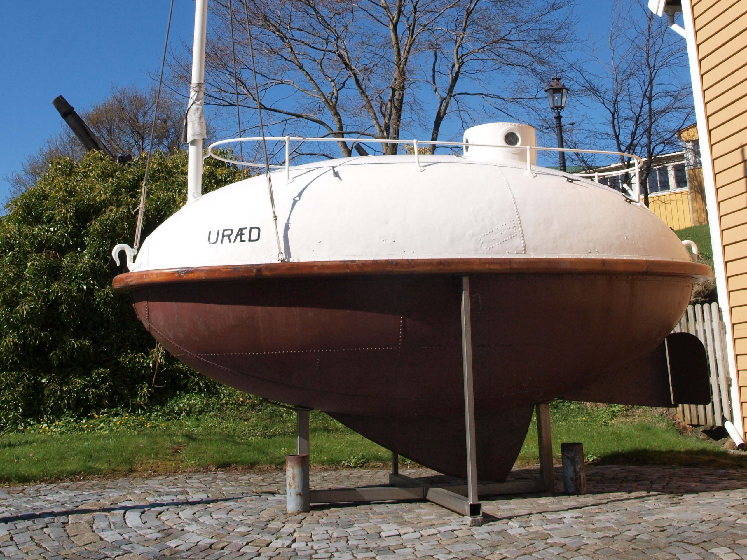 Lifeboat constructed by Ole Brude